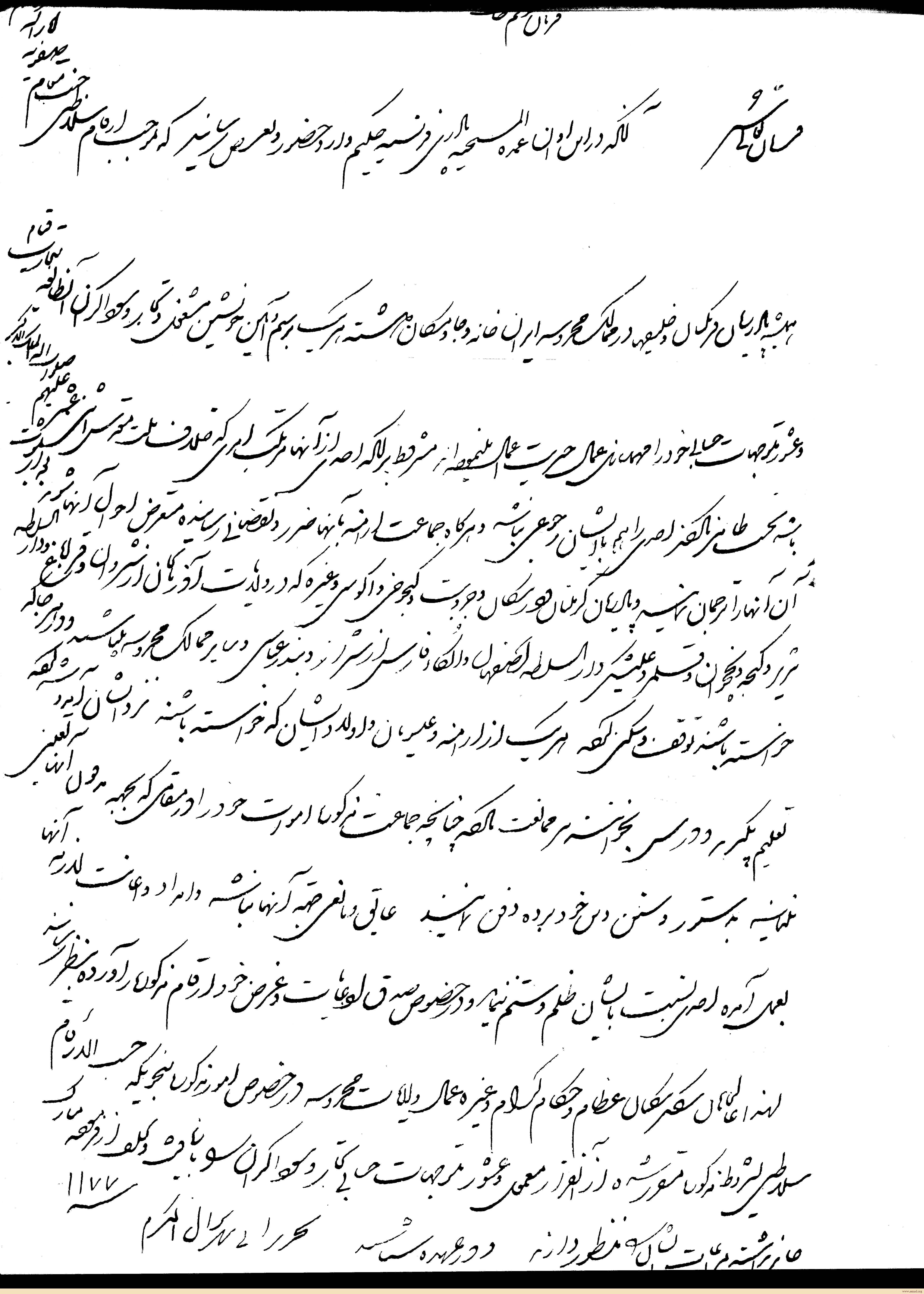 Decree signed by Karim Khan (1750-1779)